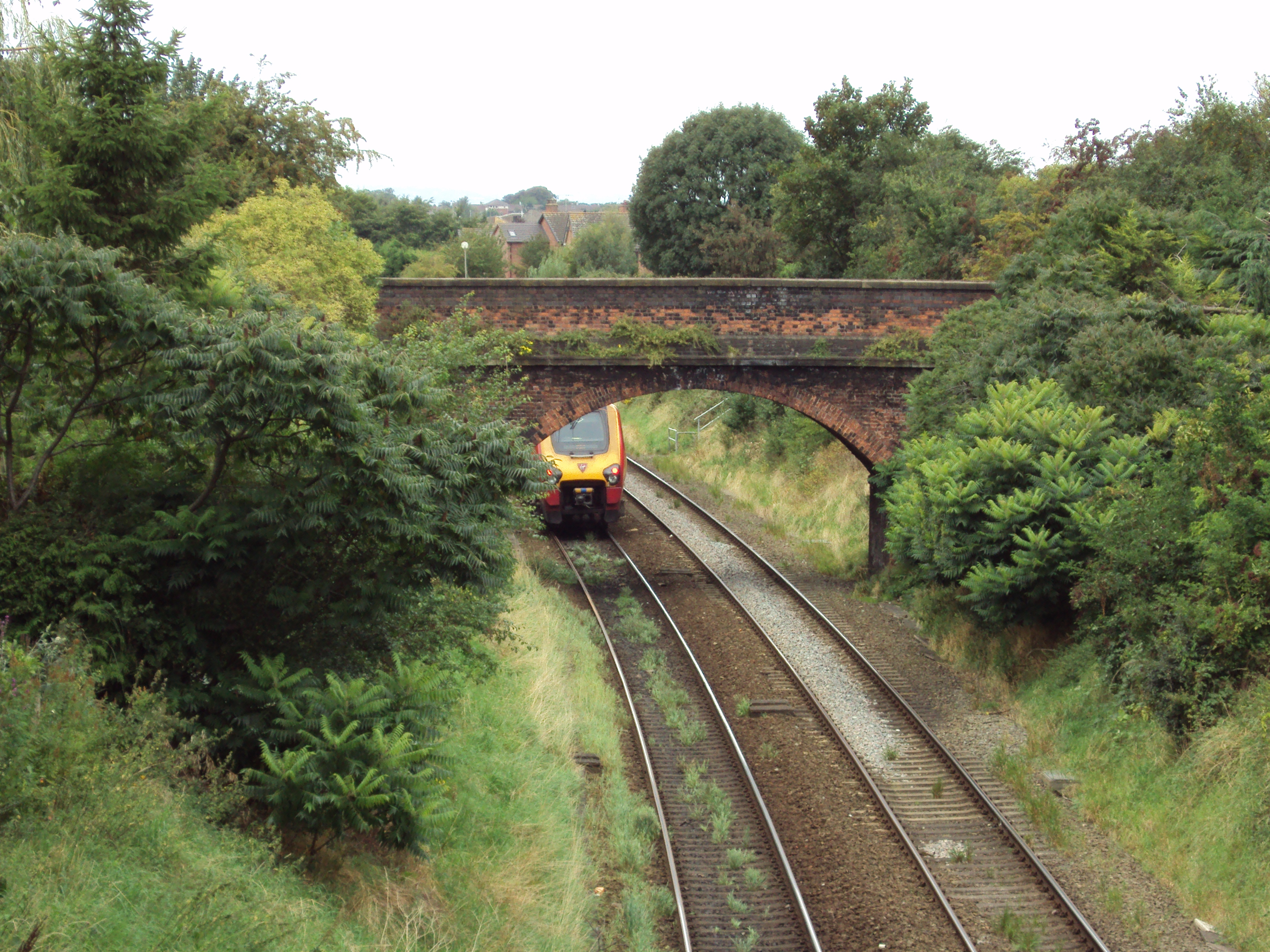 The Crewe-Chester section of the North Wales Coast Line passes under the A51 road at Vicar's Cross, Chester, England. A class 221 SuperVoyager train passes in the Chester direction.